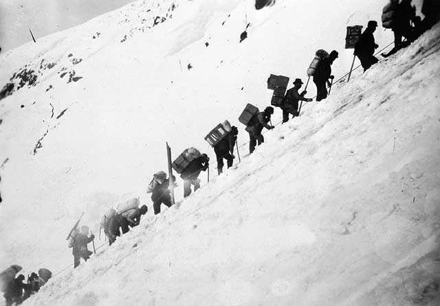 Life in the Klondike during the gold rush. Packing up Chilkoot Pass ca. 1898 - 1899